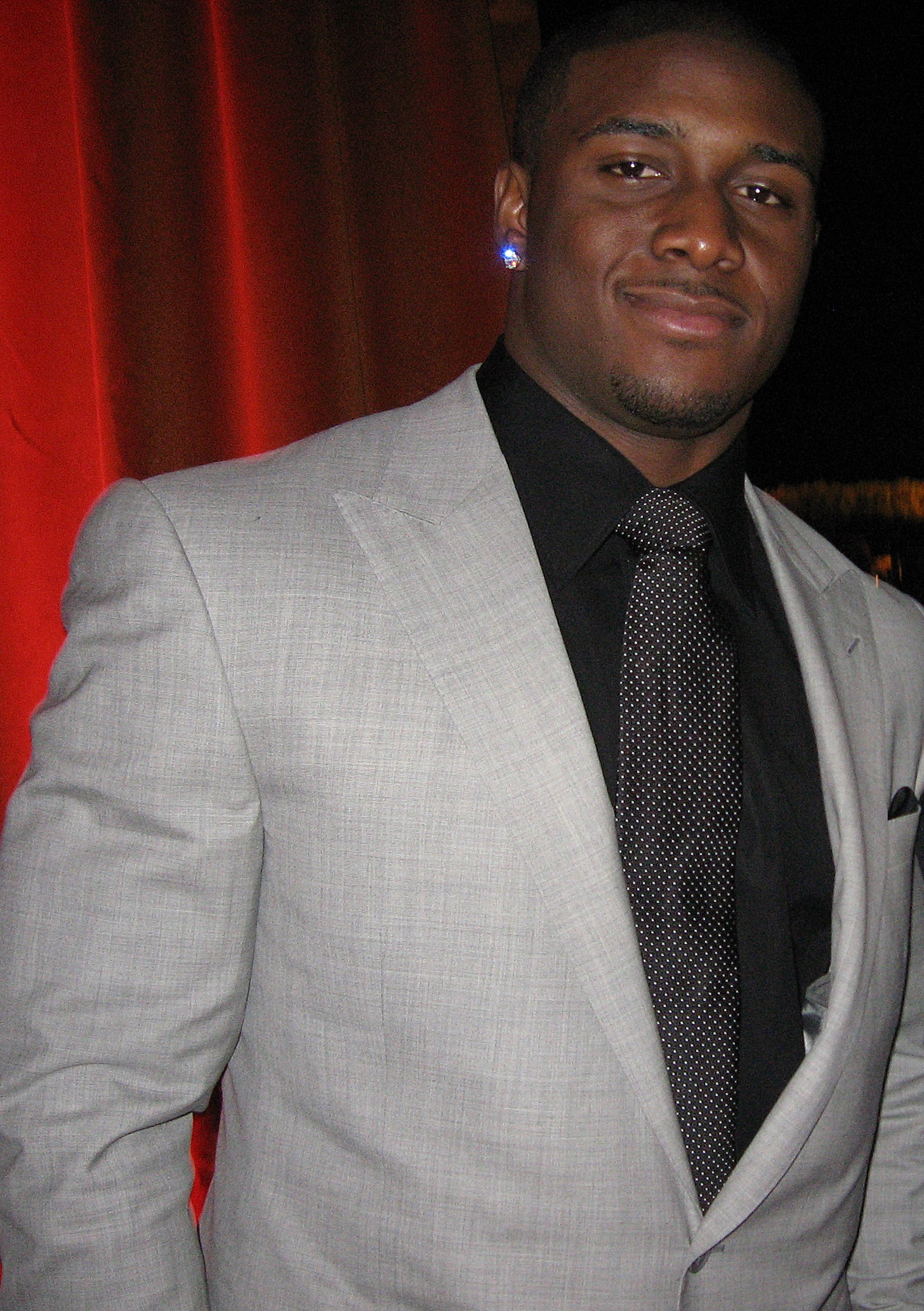 football player Reggie Bush and actor/film producer Josh Wood